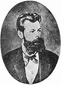 Ricardo_de_Céspedes_Céspedes